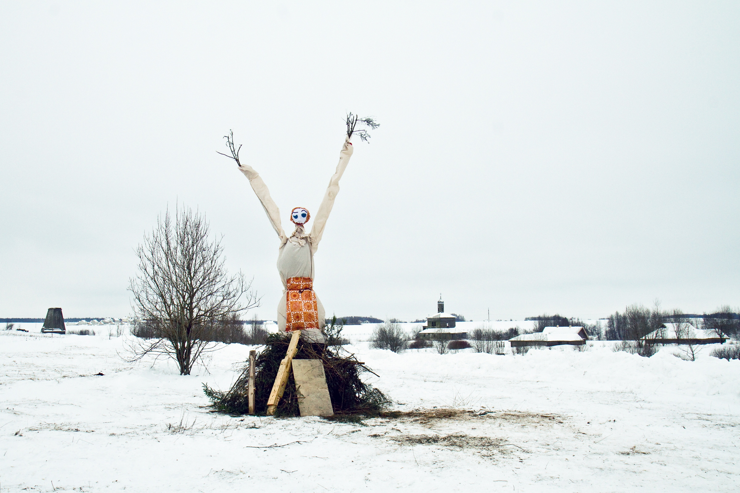 Man of straw to be burnt on Shrovetide. State museum of folk architecture and life, Belarus.